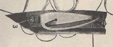 Shuttle for White VS III sewing machine, from user manual